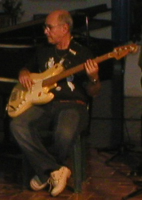 Tony Perez in 2012